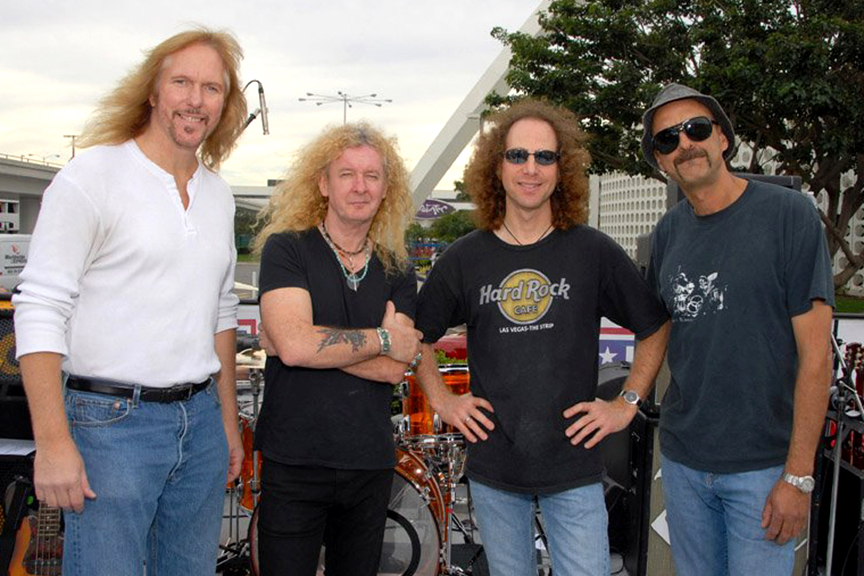 Led Zepagain performing at the Los Angeles International Airport on November 29, 2011